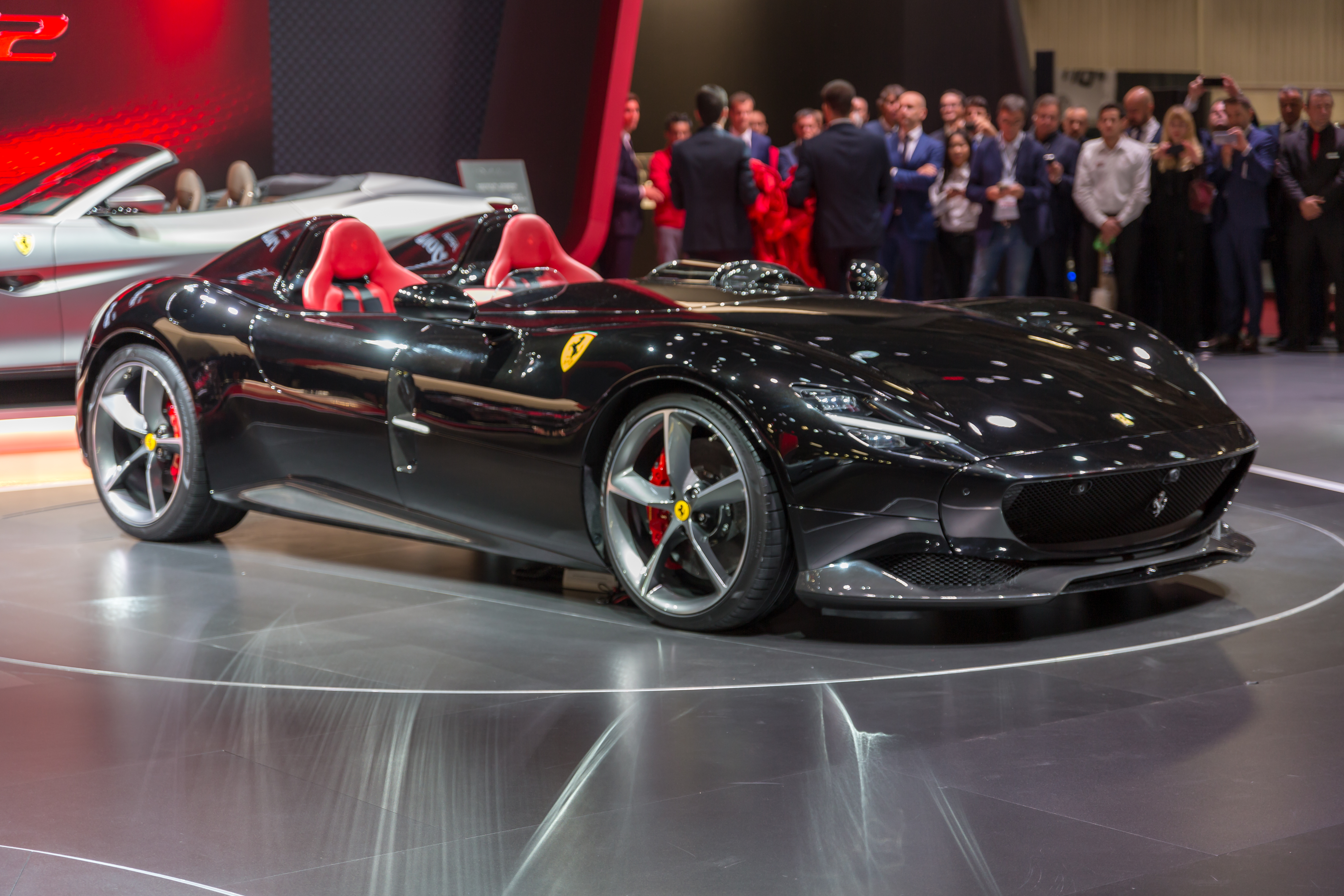 Press days at Mondial Paris Motor Show 2018